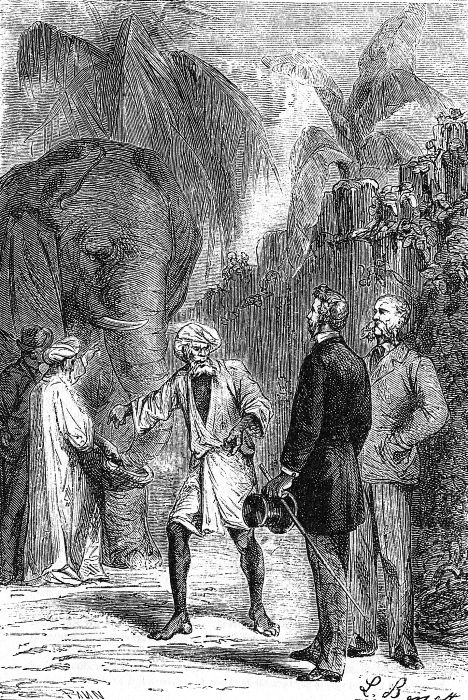 An ilustration from the novel "Around the World in Eighty Days" by Jules Verne painted by Alphonse de Neuville and/or Léon Benett.